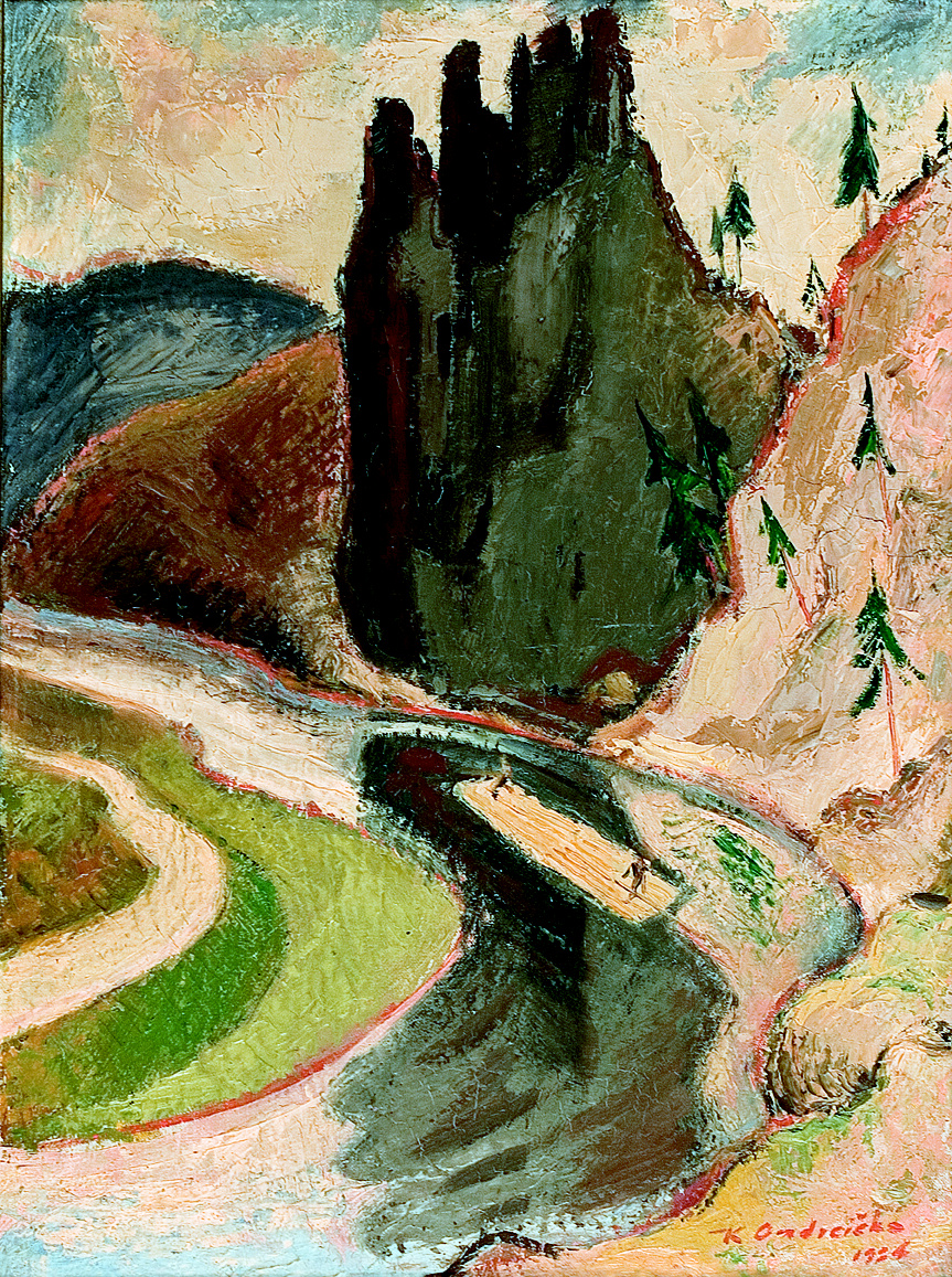 olejomaľba na plátne, Stredoslovenská galéria Banská Bystrica